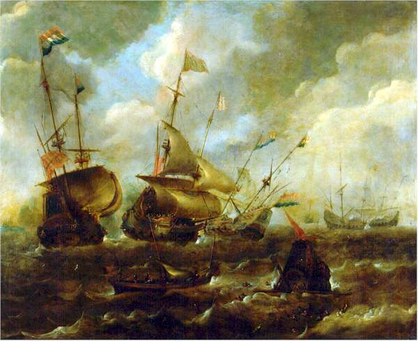 This painting represents one of the many naval battles between the Spanish armadas and those of the Netherlands during the first half of the 17th century. From the Dutch school.